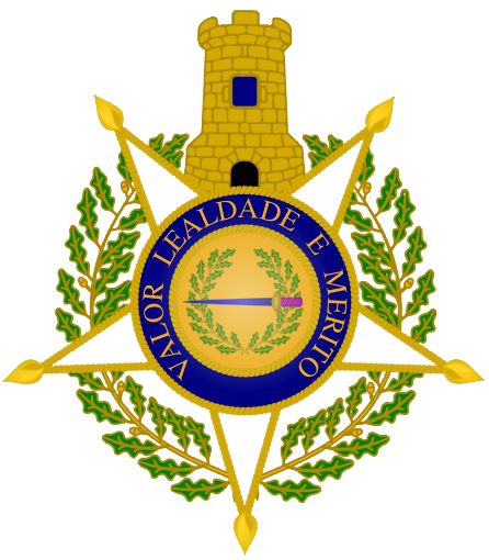 Badge of the Order of the Tower and Sword.